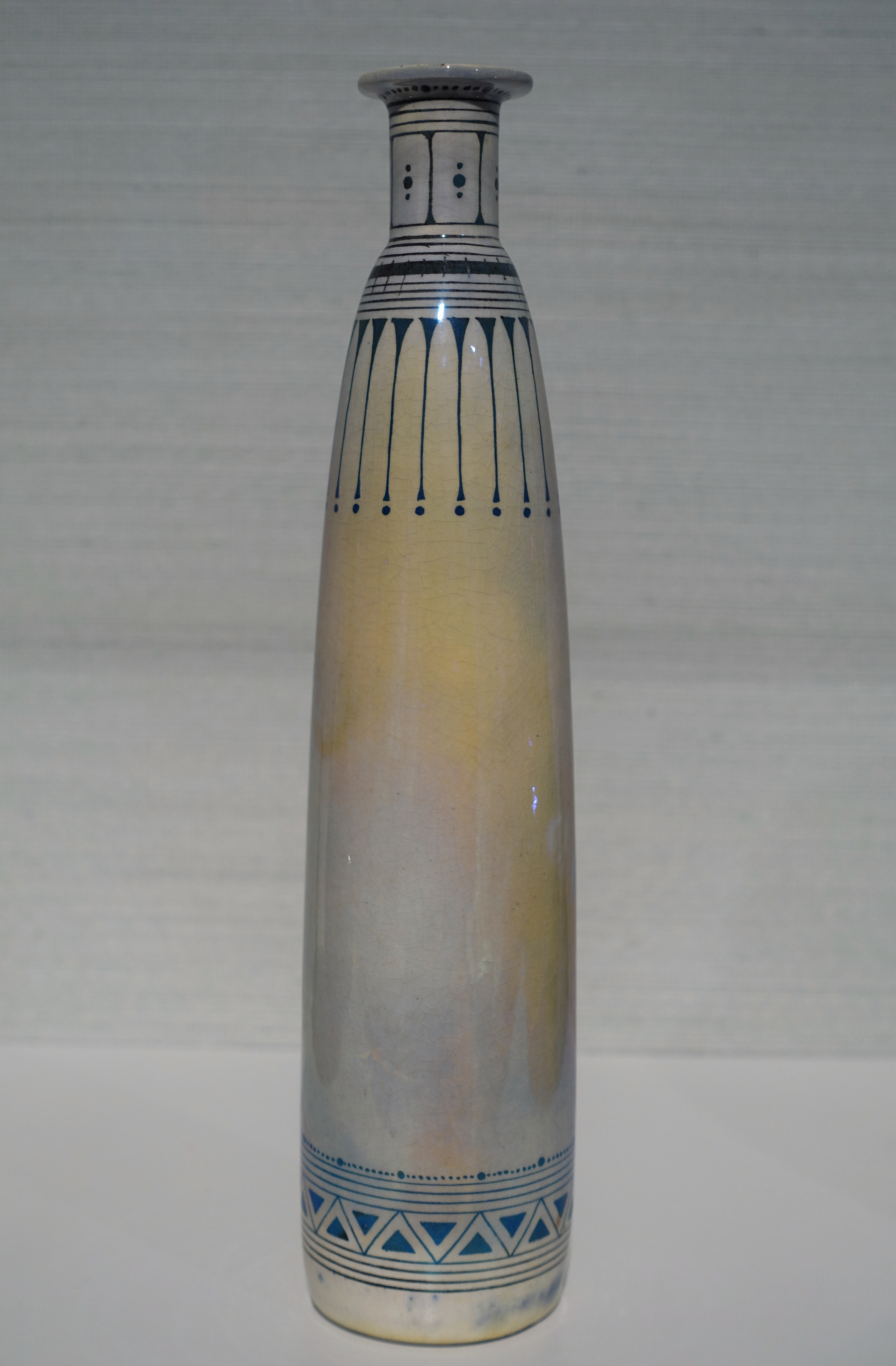 Exhibit in the Hessisches Landesmuseum Darmstadt - Darmstadt, Germany. As a utilitarian object, this exhibit is NOT subject to copyright laws. Instead it is subject to Industrial Design Rights; see Industrial Design Right for more information. If this object was ever covered by a design patent, that patent has long since expired, and thus this image is in the public domain.